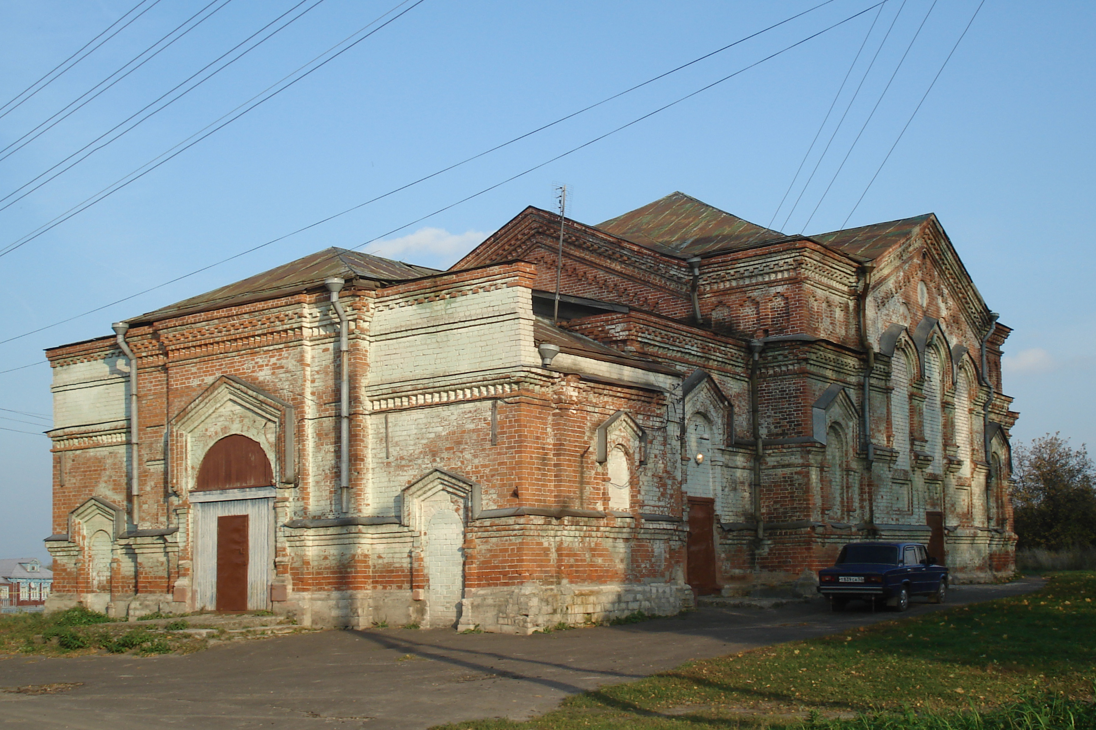 Sretenskaya Church in the village of Chulkovo. Nizhegorodskaya oblast. Russia.